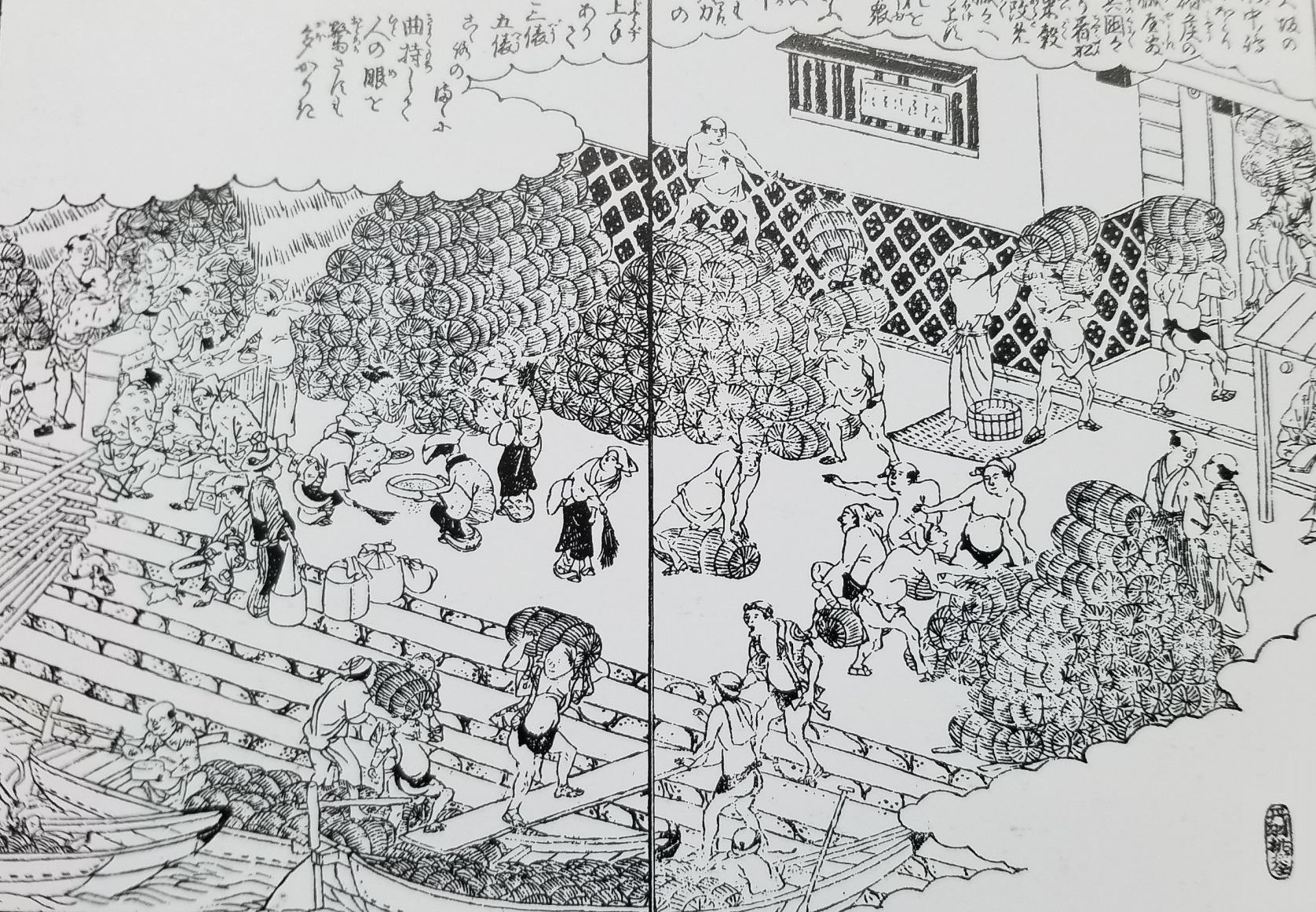 Osaka Dōjima Rice Exchange. People who manage quality, people who carry a lot of rice bran ((Settsu landmark drawing)